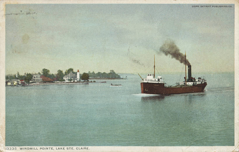 Windmill Pointe, Lake Ste. Claire